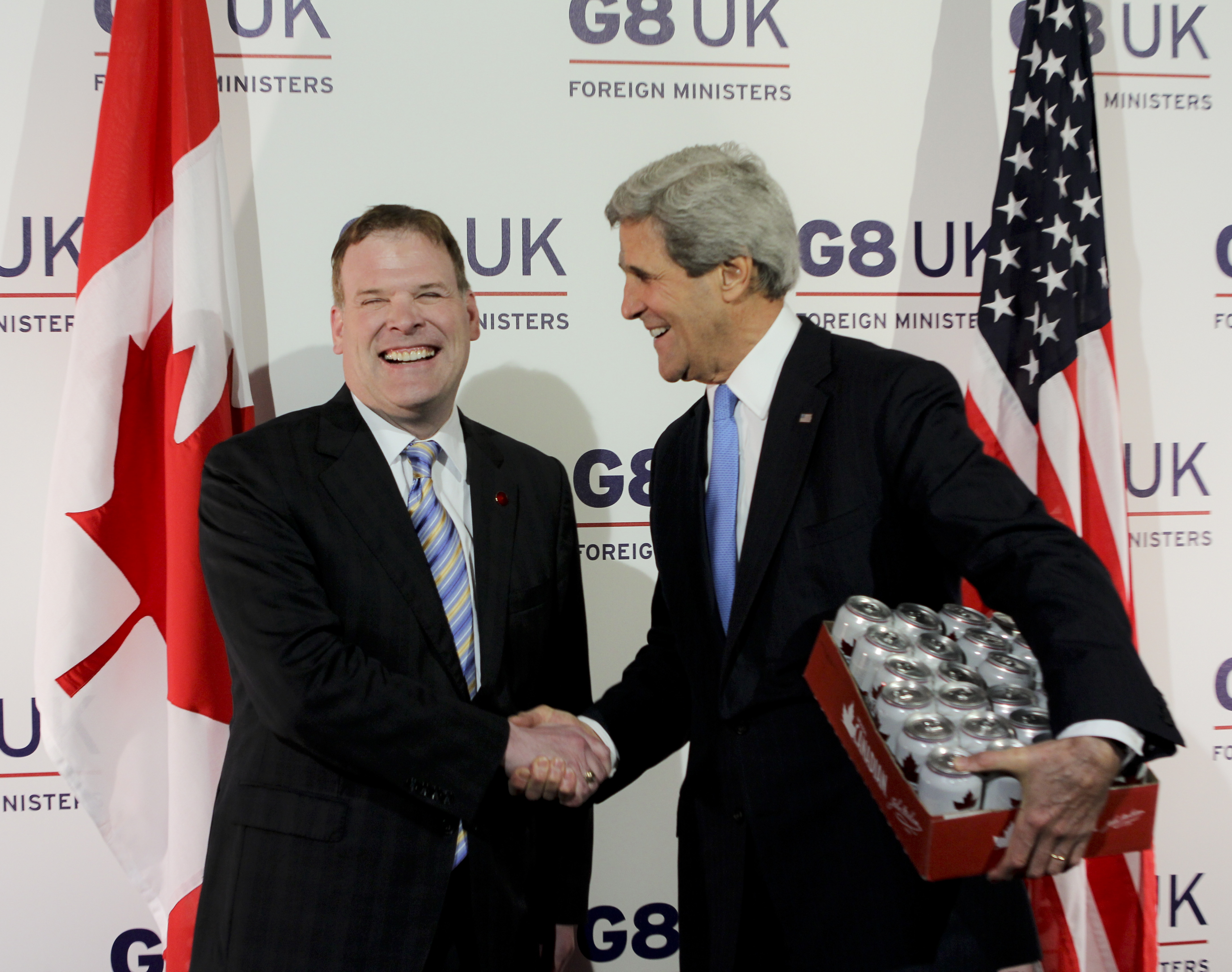 U.S. Secretary of State John Kerry receives a case of beer from Canadian Foreign Minister John Baird, fulfilling the terms of a bet made over a US-Canada women's hockey match, during a break in the G8 ministerial meetings in London, United Kingdom, April 11, 2013. [State Department photo/ Public Domain]